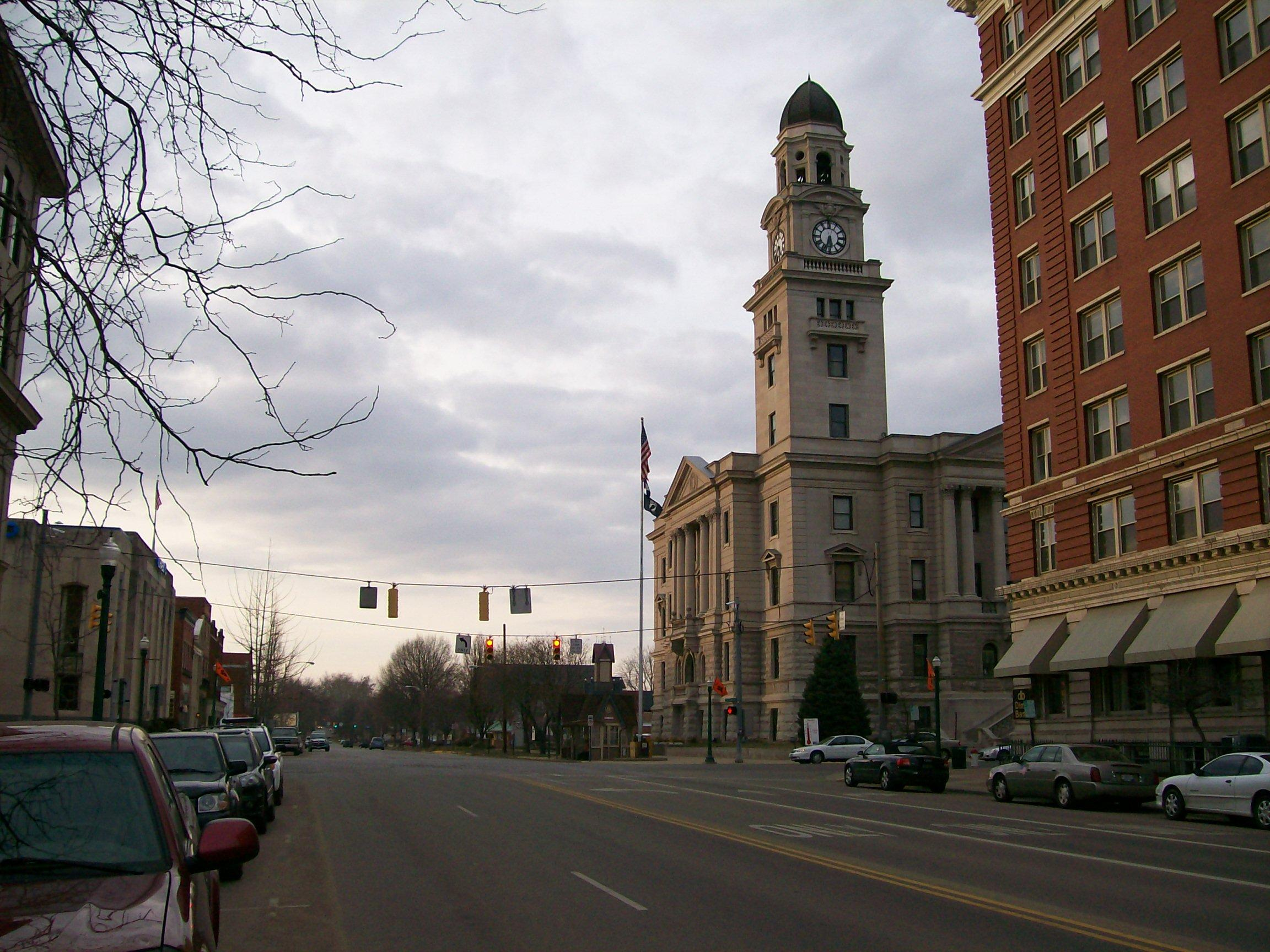 Marietta Historic District in Ohio. Second Street of the district is pictured facing northwest. The Washington County Courthouse can be seen to the right with its distintive clock tower and dome. The district is included in the NRHP for Washington County. Taken March 10, 2010.